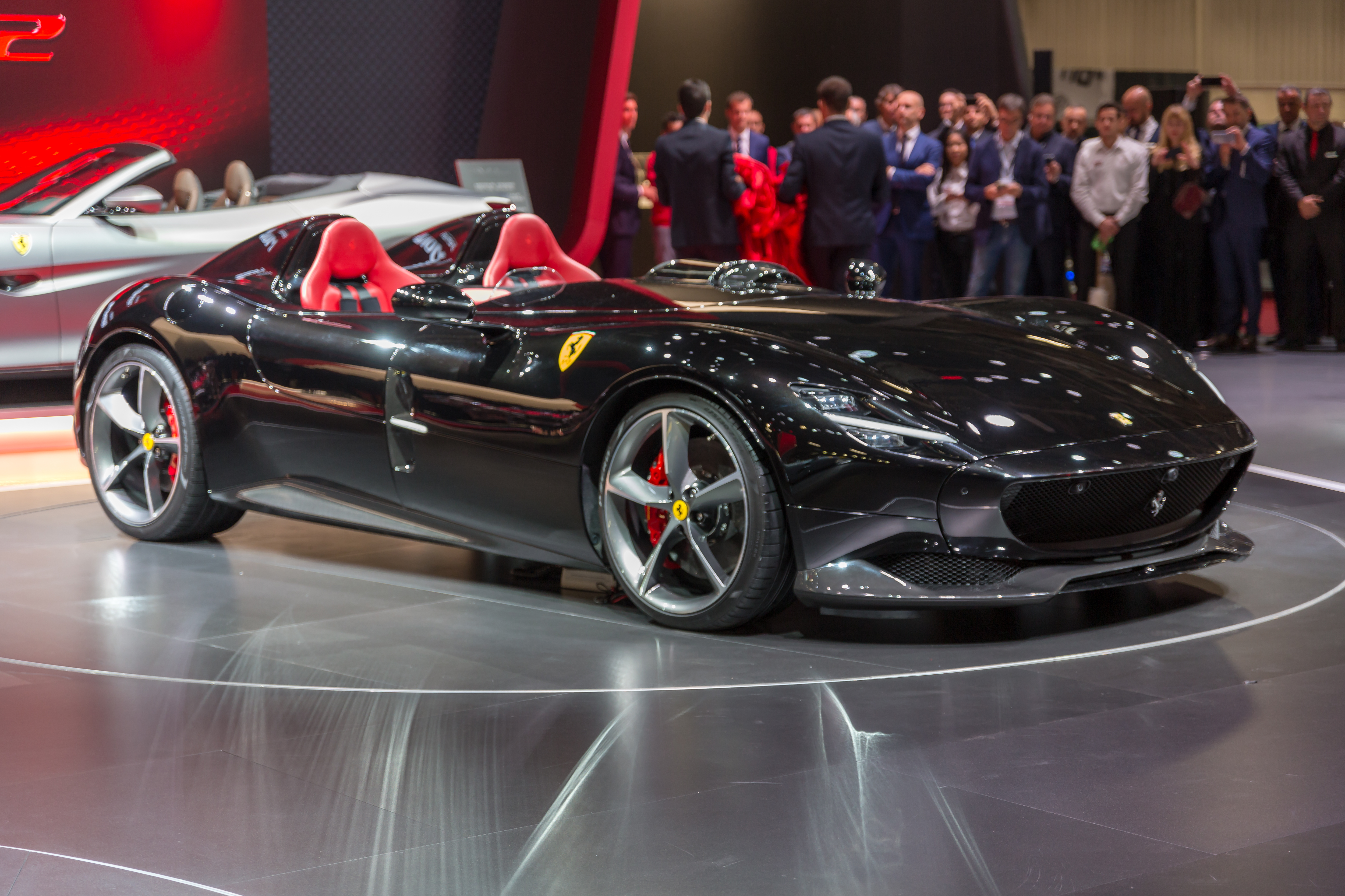 Mondial Paris Motor Show 2018